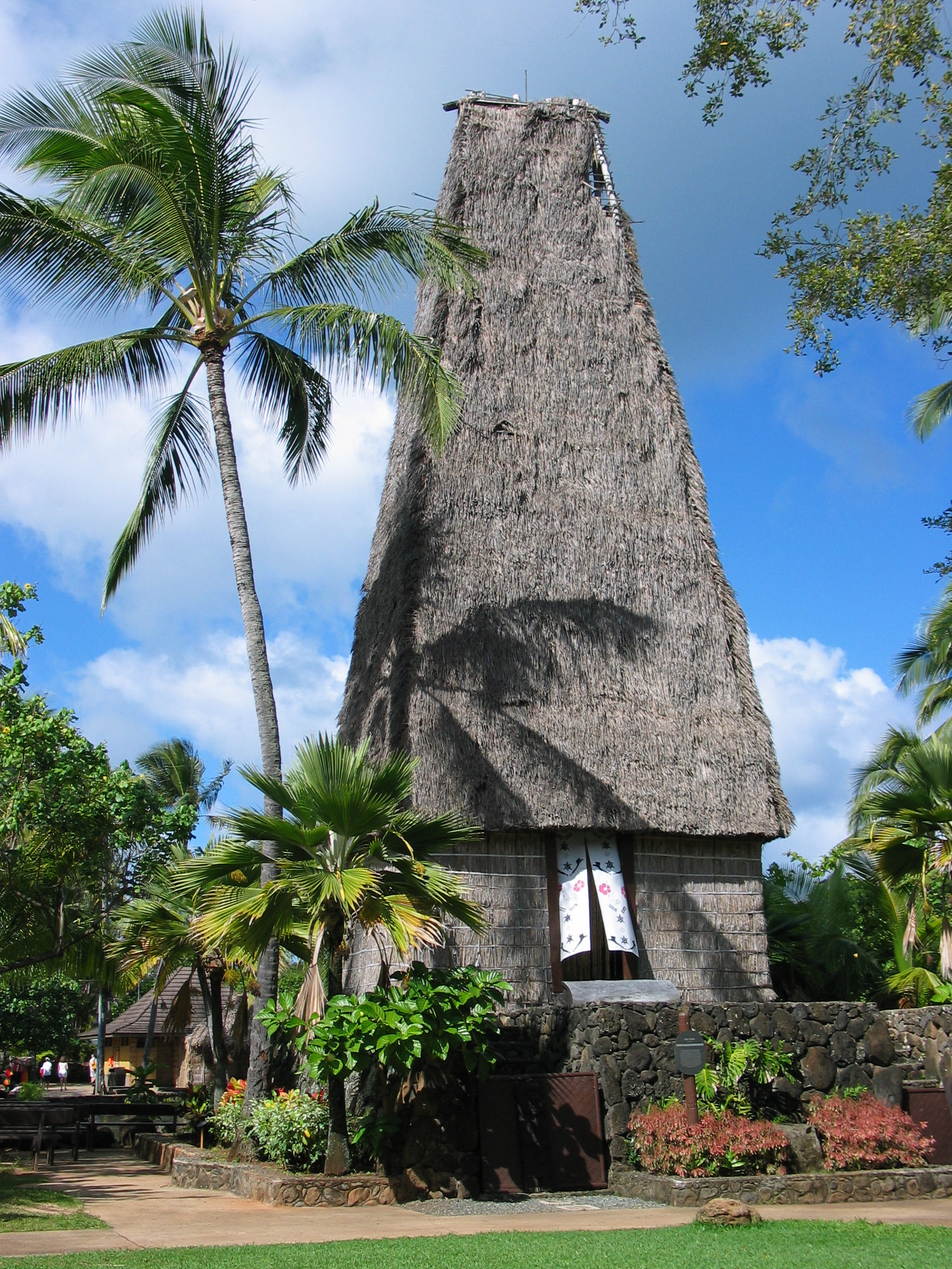 Bure Kalu - A Fijian Temple at the Polynesian Cultural Centre in Hawaii.